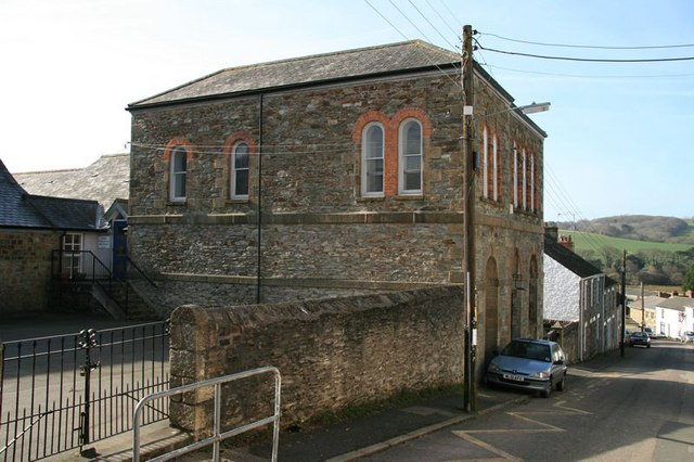 Former Market Hall, Devoran The old market hall in Devoran is situated towards the top of Market Street adjacent to the former village primary school.